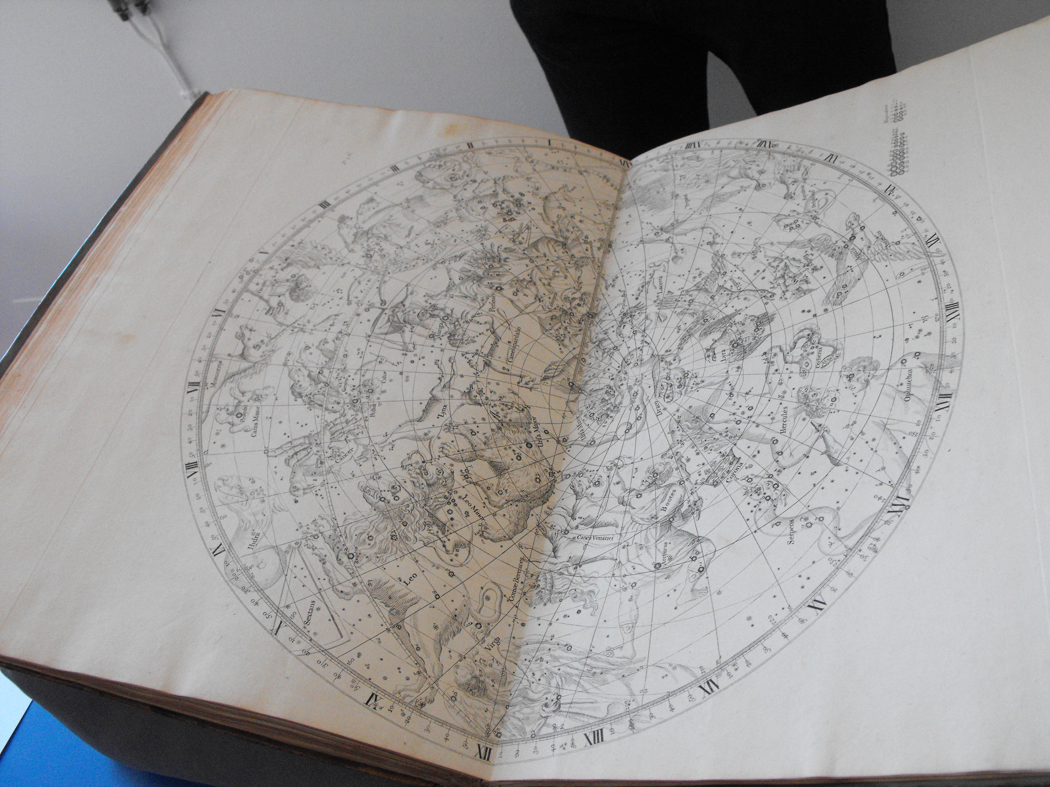 Atlas Coelestis by John Flamsteed (2nd ed. 1753) Illustrated by James Thornhill. Taken on a GLAMDerby behind the scenes visit.